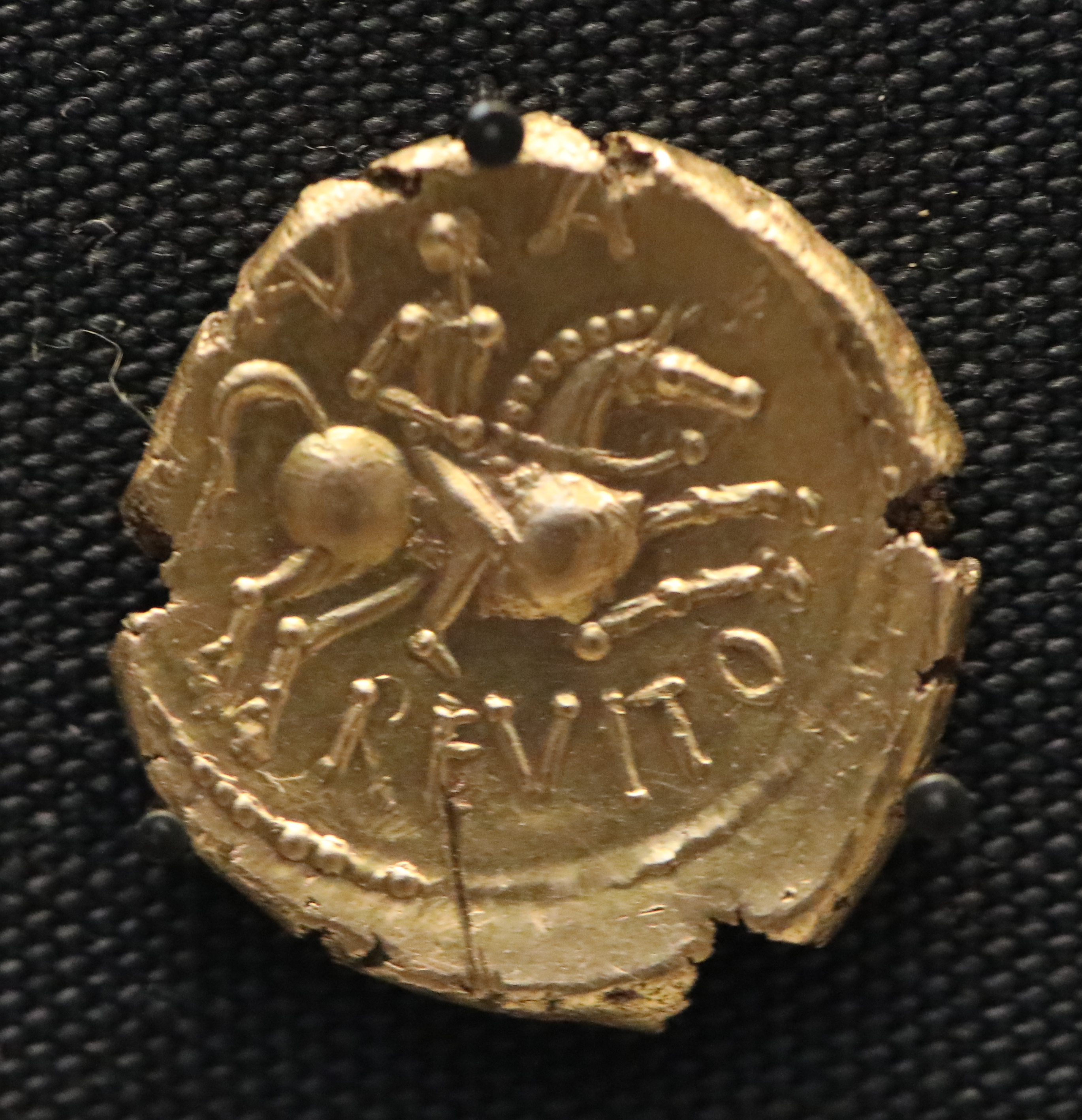 Photo of a the first (and so far only) known coin Anarevito who may have been a british ruler in kent